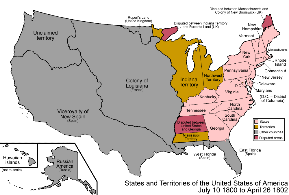 Map of the states and territories of the United States as it was from July 10 1800 to 1802. On July 10 1800, Connecticut ceded its Western Reserve to the federal government. On April 26 1802, Georgia ceded its western land to the federal government.